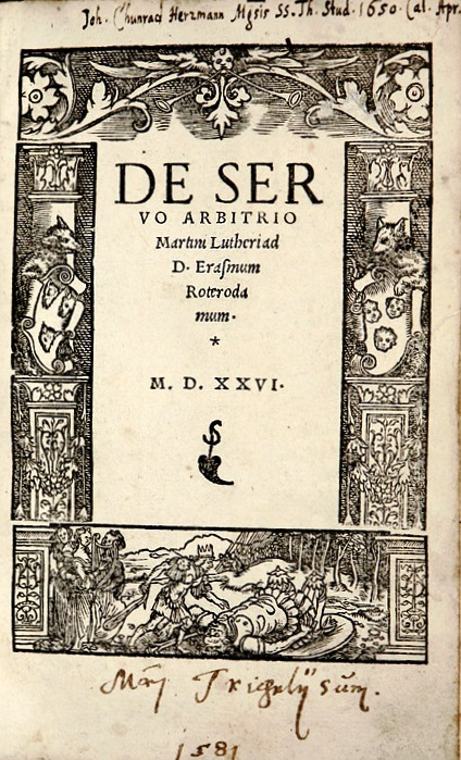 Title page of Luther's work On the Bondage of the Will